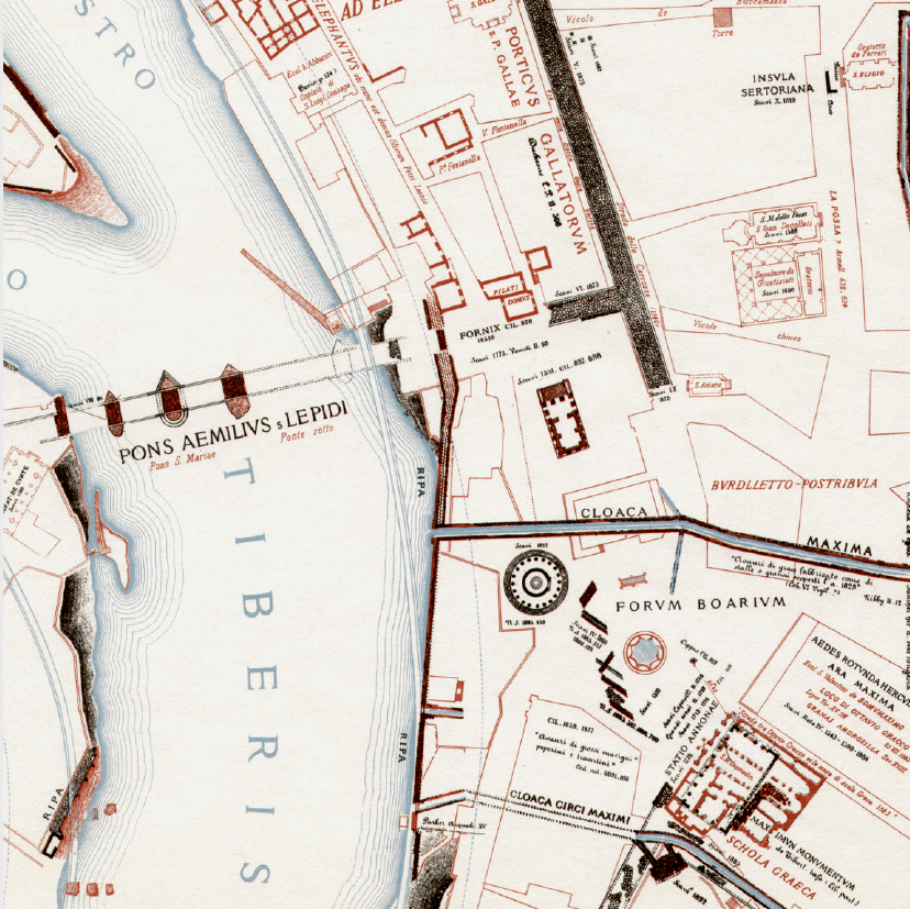 Map of the Forum Boarium